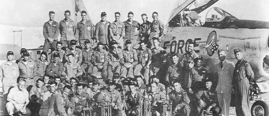 The Eastern Air Defense Force team won the 1956 USAF Gunnery and Weapons Meet (Interceptor Phase) at Yuma scoring 13,800 points. Team members included Capt. Robert Loeffler, 1 /Lt. Robert Long, 1/1 .t. Ronald Legner, with Capt. Charles Tabor and 1/Lt. William Clarke, Jr. as alternates. Team Captain was Col. Norman Orwat, Commander of the 94th FIS at Selfridge AFB, MI.